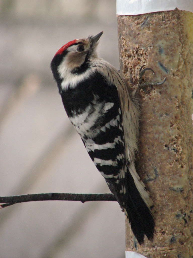 Lesser Spotted Woodpecker (Picoides minor). Photo taken from a winter feeding site in Finland.